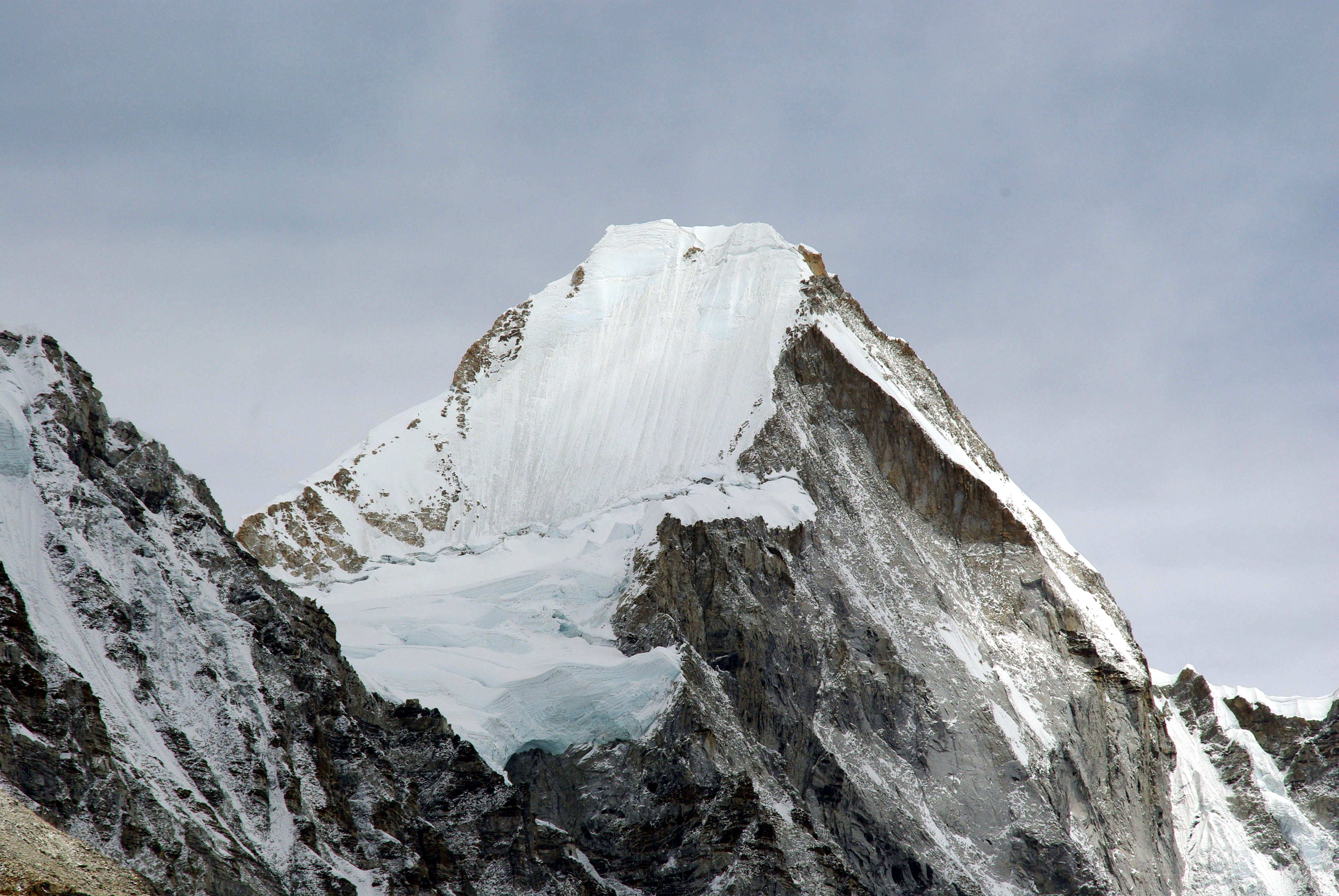 Contrast enhanced version of which in turn was sourced from